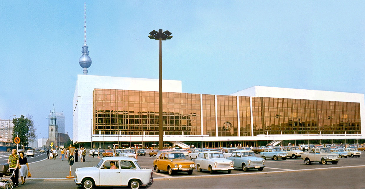 The Palace of the Republic in East Germany (GDR/Berlin) in 1977. The Palace was built on the ground of the former Berlin City Palace. Demolition was completed in 2009.